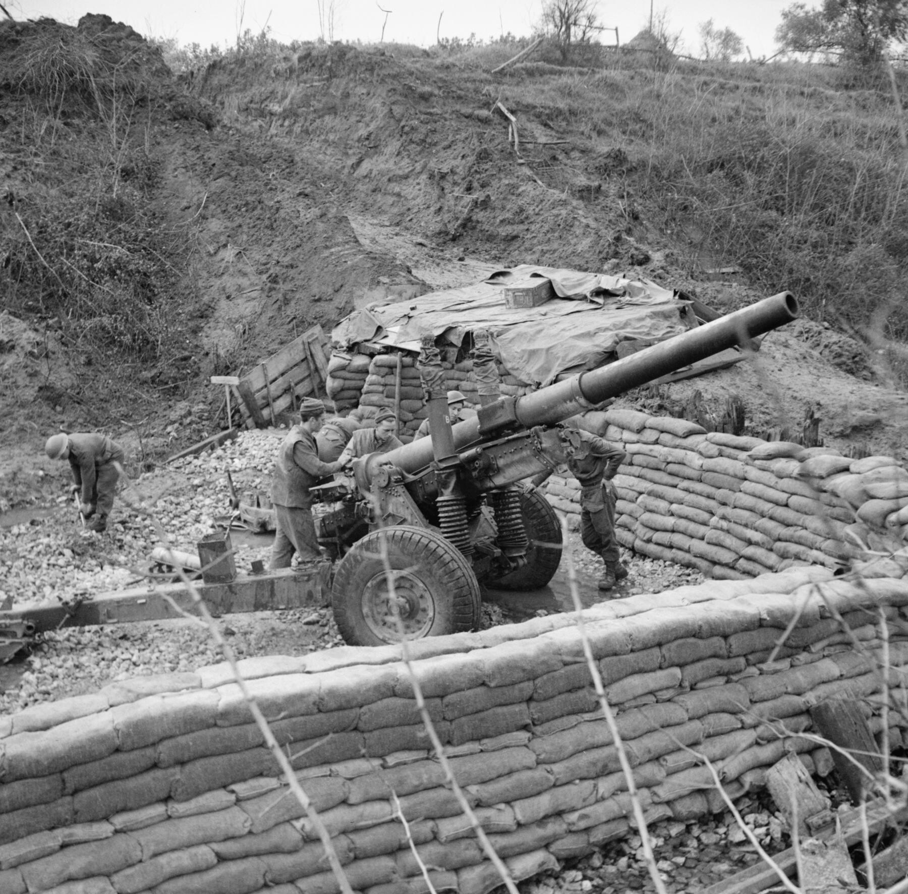 The British Army in Italy 1944 A 5.5-inch gun of 102nd Medium Regiment (Pembroke Yeomanry), 2 March 1944.